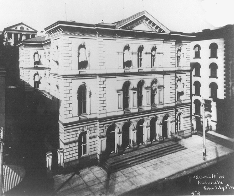 U. S. Customhouse, 10th and Main Streets, Richmond, VA 1900